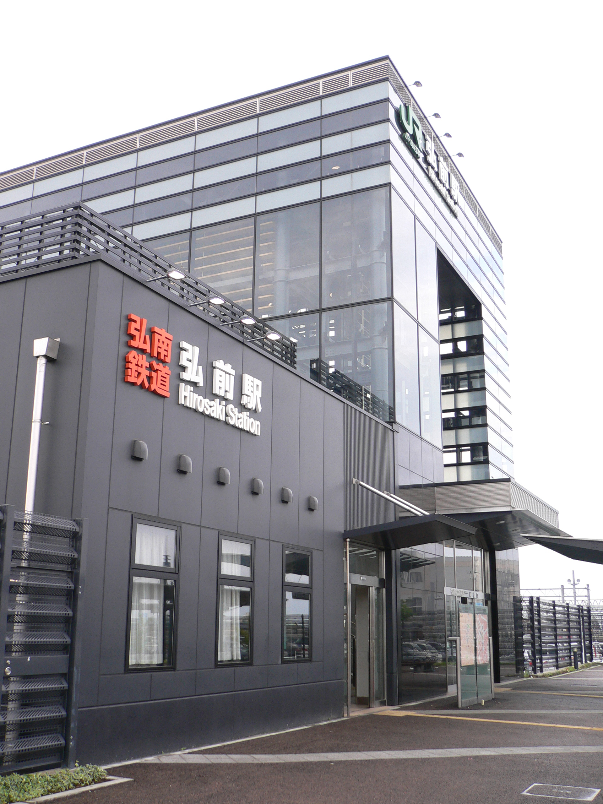 Hirosaki Station Jōtō-Entrance(弘前駅), Hirosaki C, Aomori P.